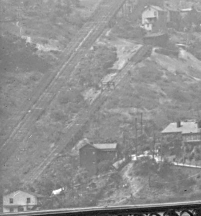 Pittsburgh and Castle Shannon Plane (the incline on the right) viewed from the Smithfield Street Bridge